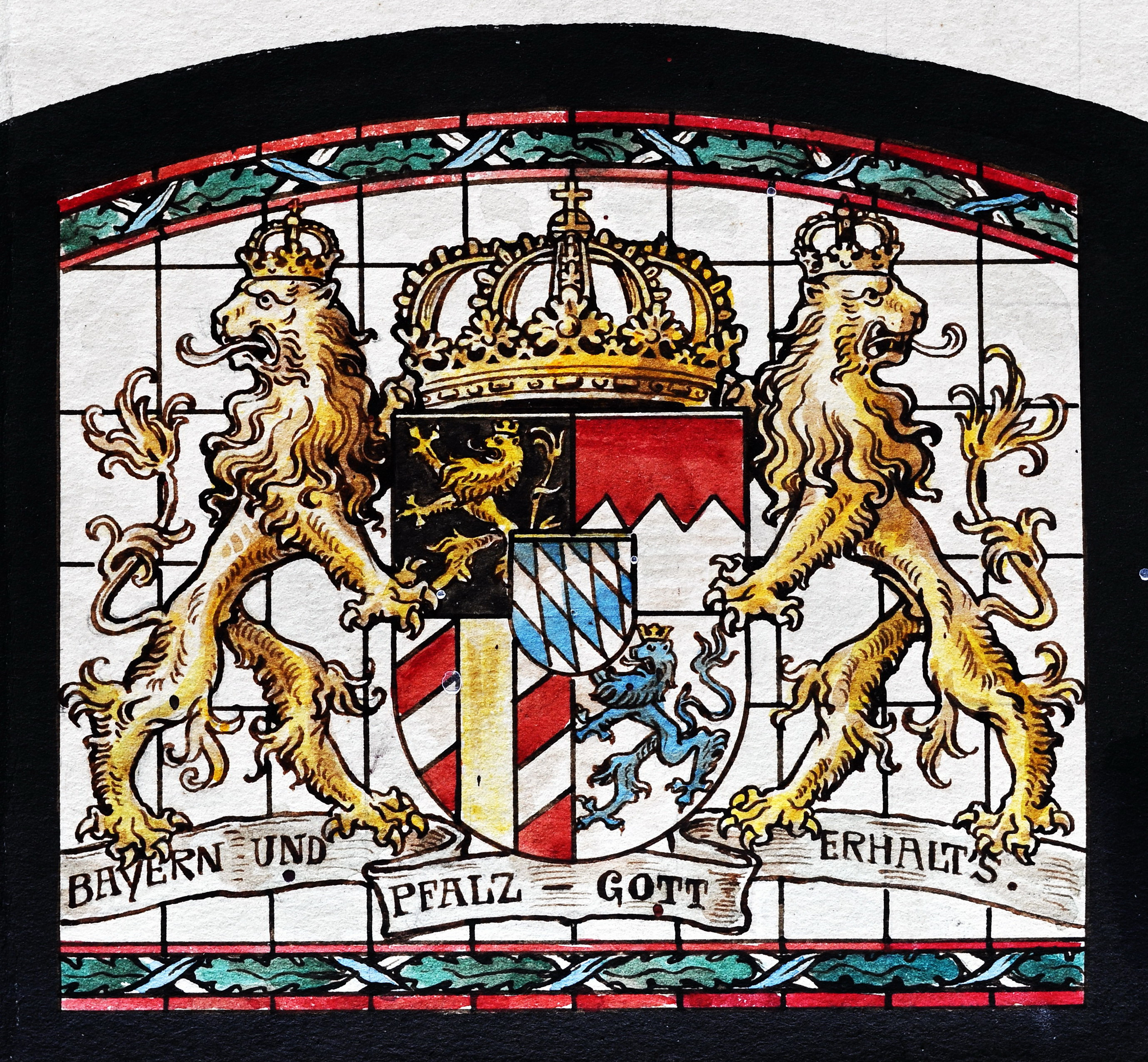 Detail of a sketch for a stained glass window with the bavarian coat of arms